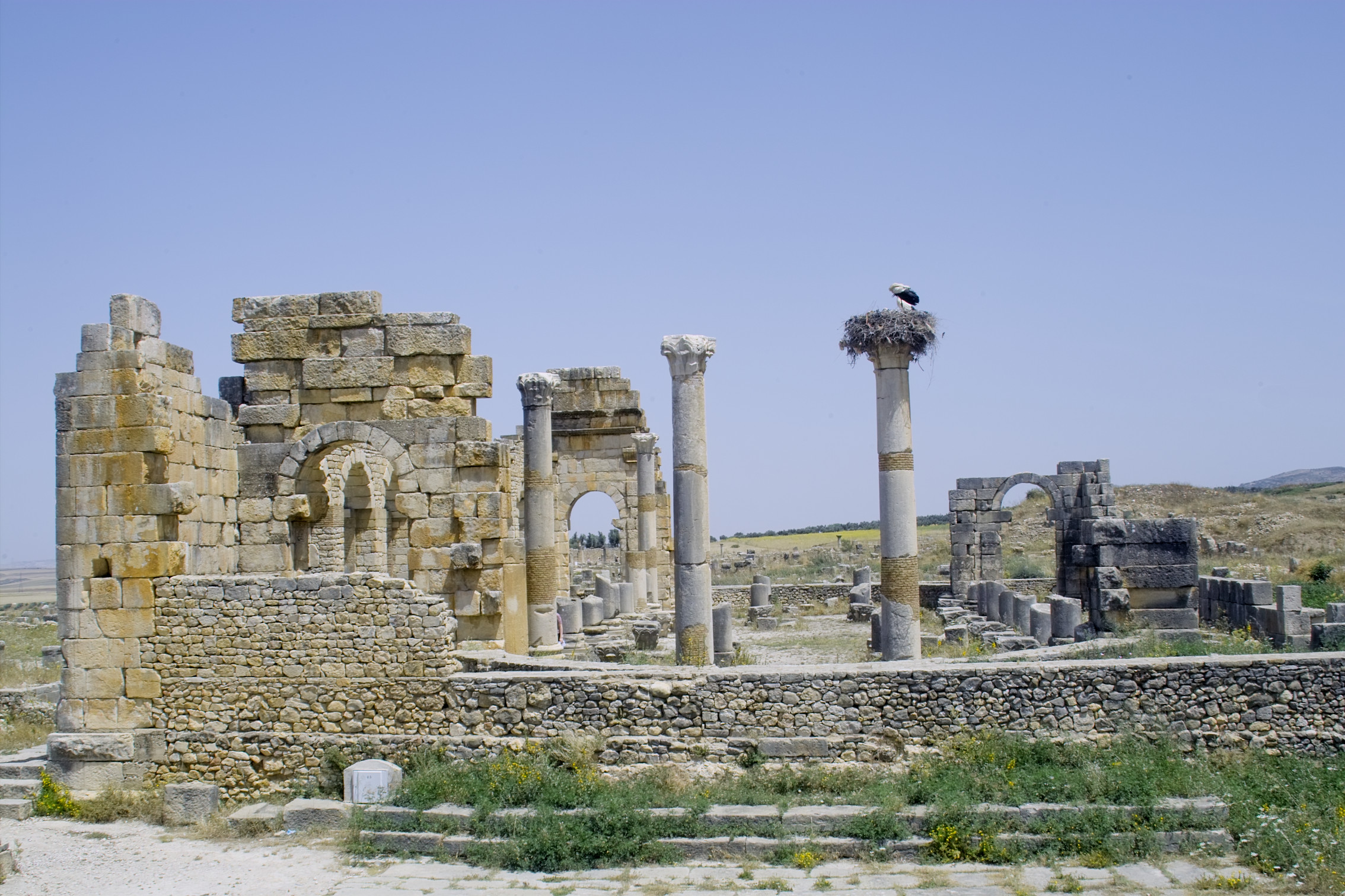 Volubilis, Morocco, Basilika with stork.